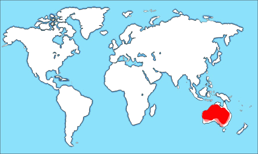 Range map for (Melopsittacus undulatus) Budgerigar.